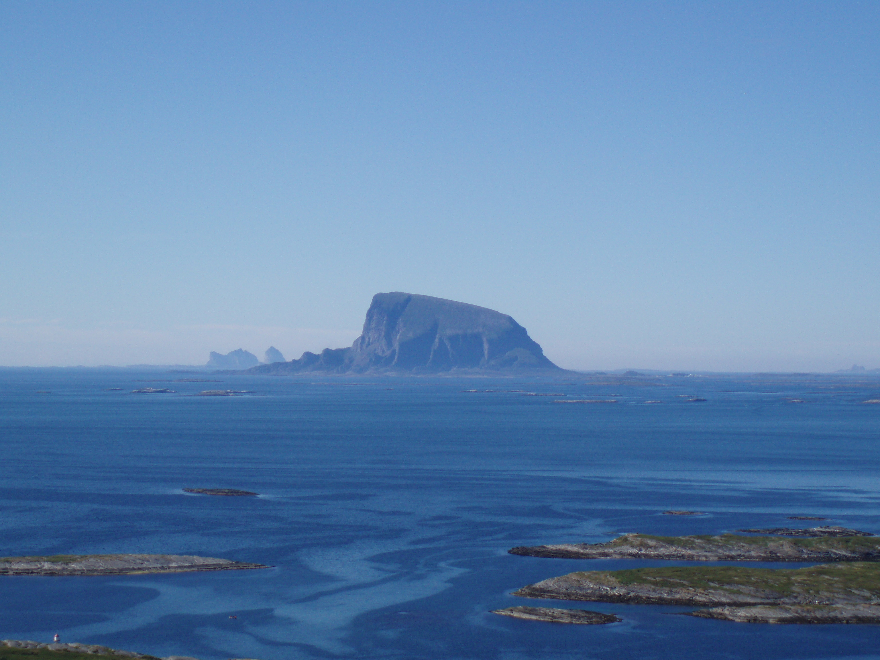 The island and mountain Lovund on the sea, seen from Dønnesfjellet, Dønna, Norway. The island Træna in the background.